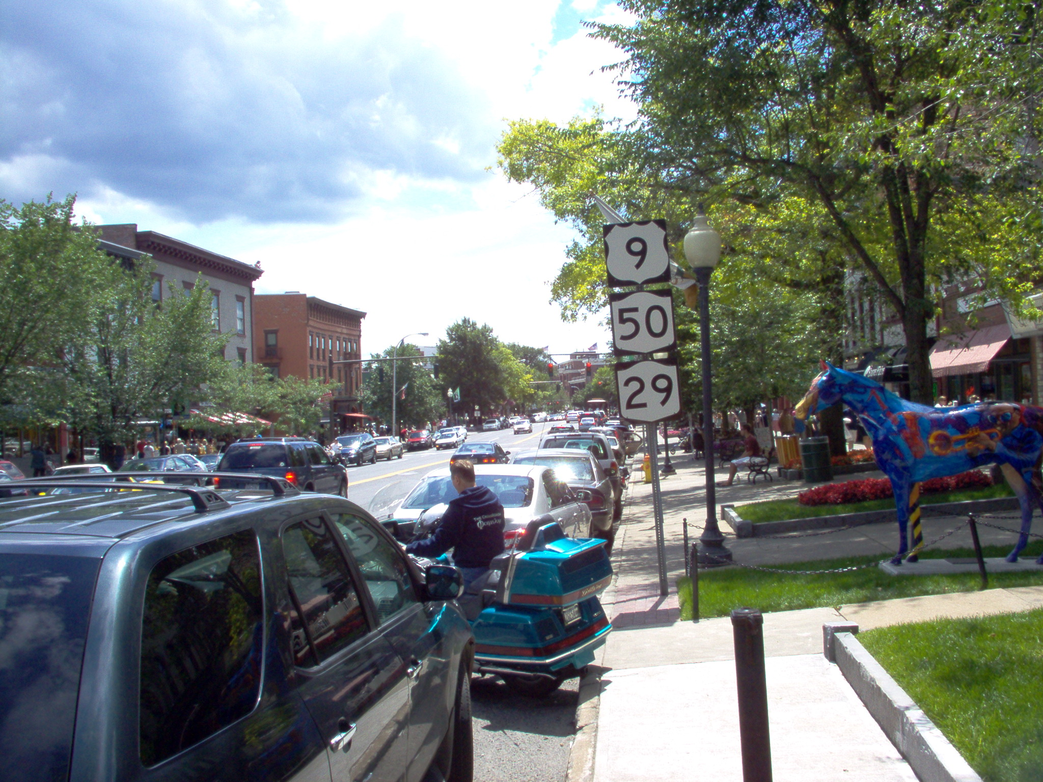 Broadway in Saratoga Springs, New York by day